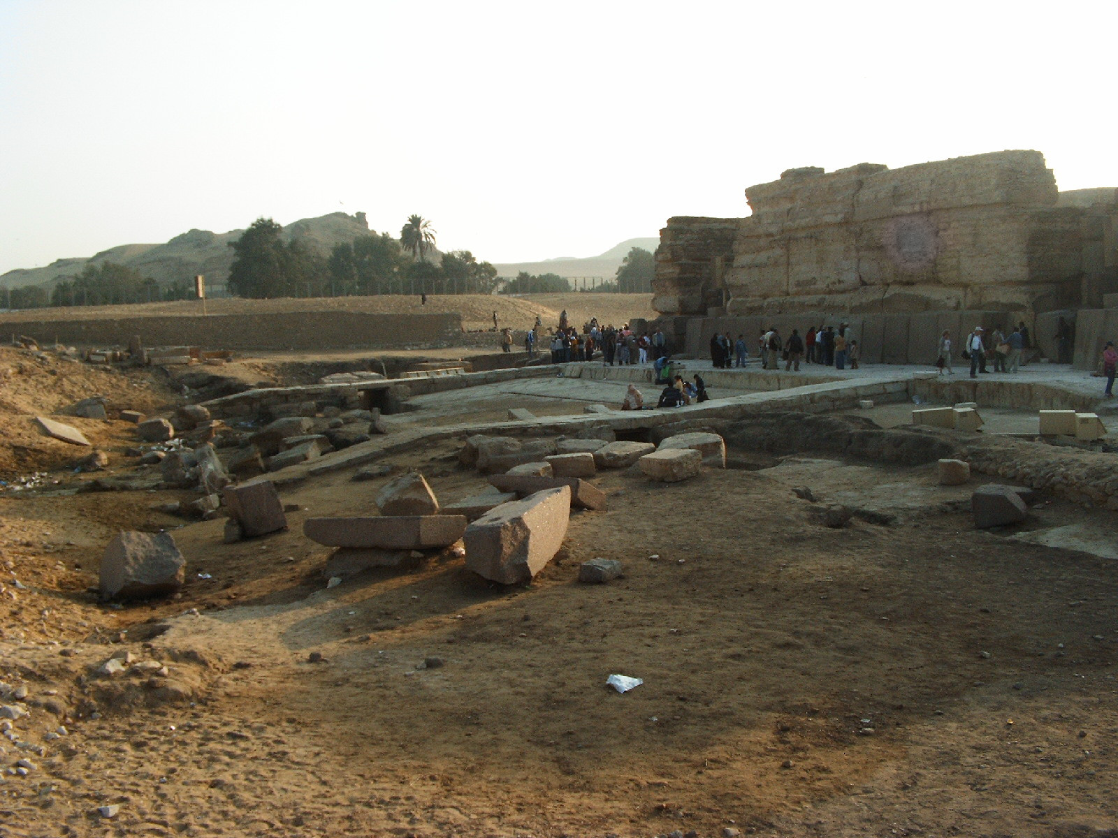 Photo shows the archaeological remains of the harbour of the valley temple of King Khephren in Giza, Egypt